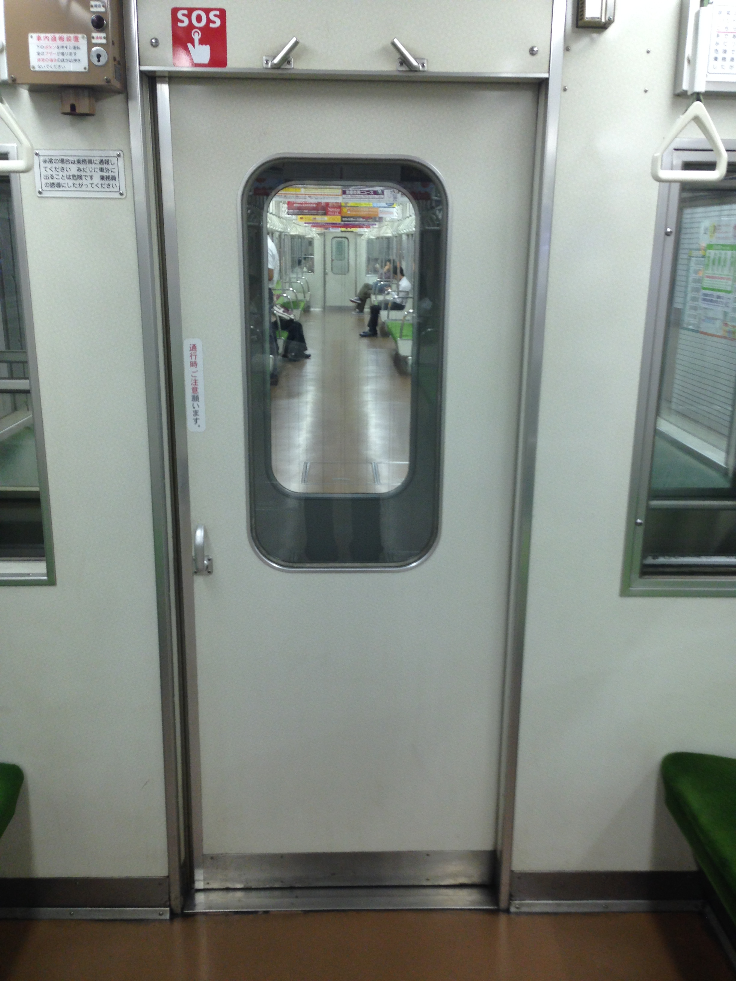 Doors between carriages on a Kyoto Subway 10 series batch 1 train